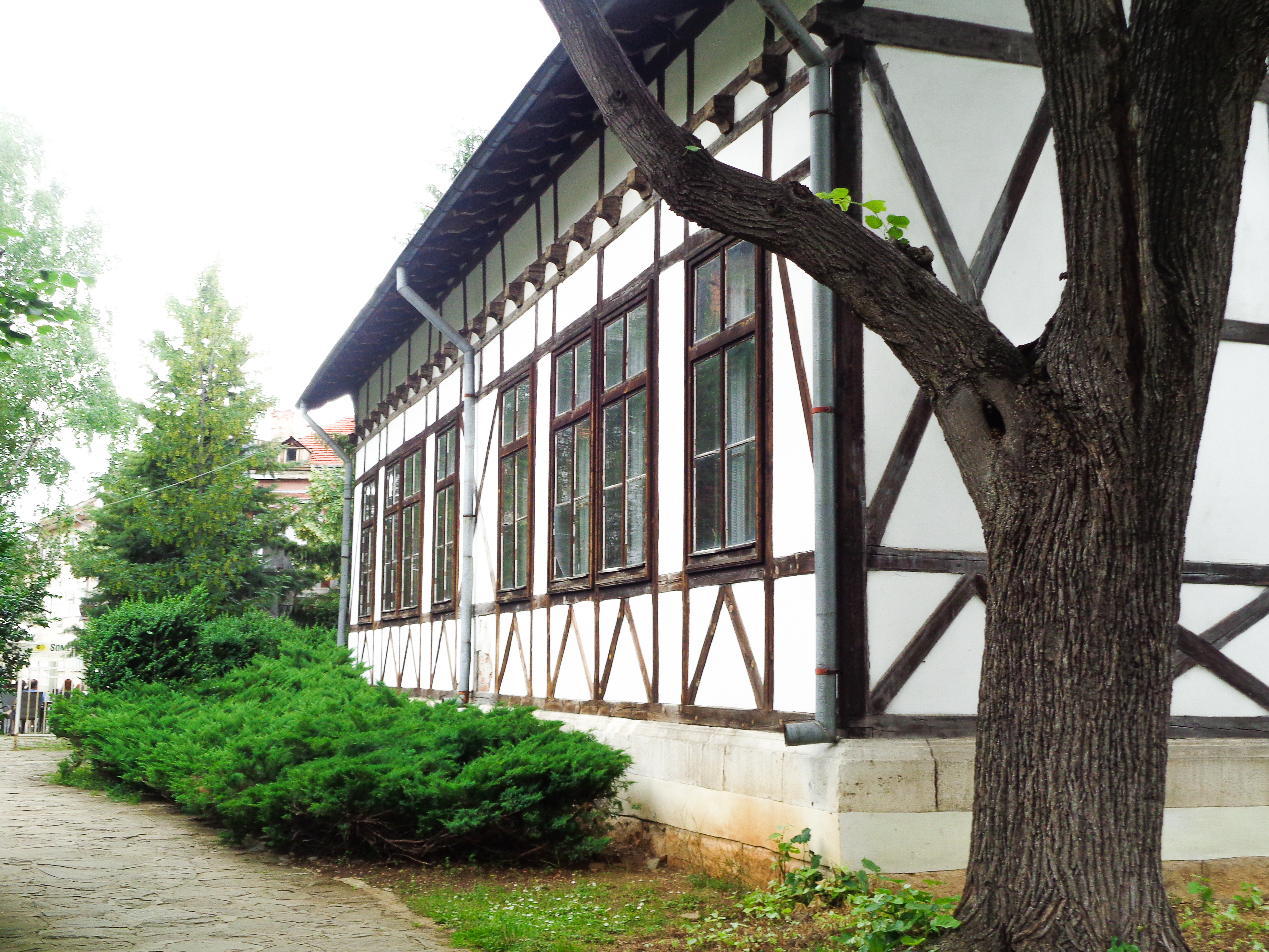 Ethnographic complex "Saint Sophronius of Vratsa"